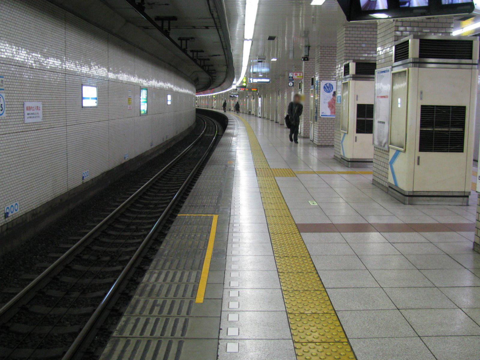 Platform of Minami-Sunamachi station on Tokyo Metro Tozai line